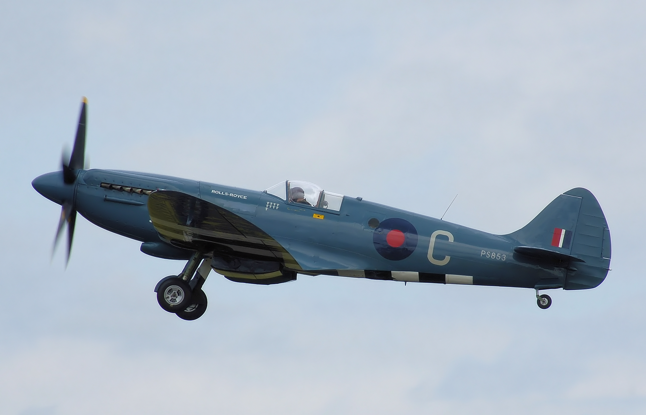 Supermarine Spitfire Mk.PR.XIX (RAF code PS853, now civil registered as G-RRGN) at Kemble Air Day, Kemble Airport, Gloucestershire, England. Owned by Rolls-Royce. Built at Supermarine (Southampton, England) and delivered to the RAF in 1945. Painted in the colours of RAF No.16 PR Squadron, 2nd T.A.F.